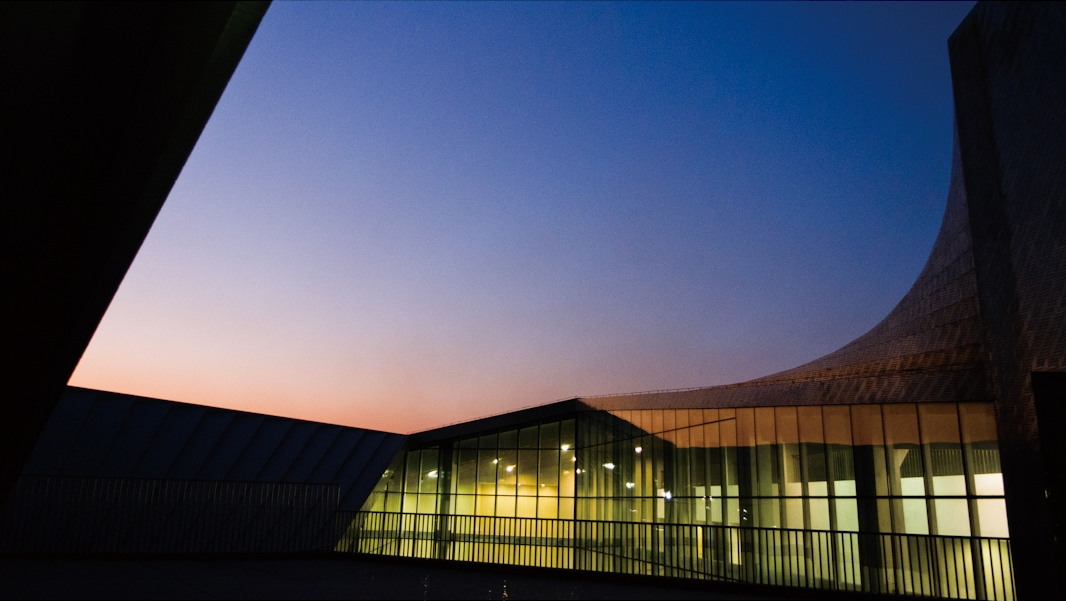 Nanjing University Student Activities Center, Xianlin Campus